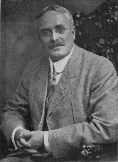 Frank Fairchild Wesbrook